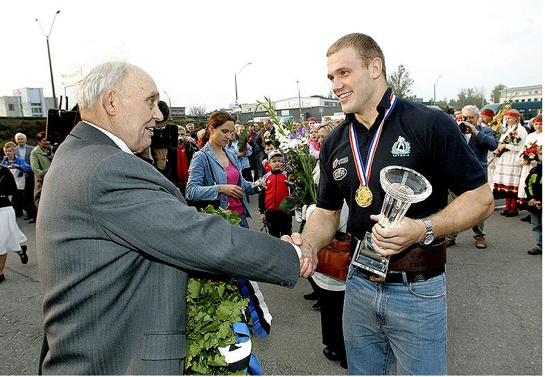 Estonian wrestlers August Englas and Heiki Nabi.